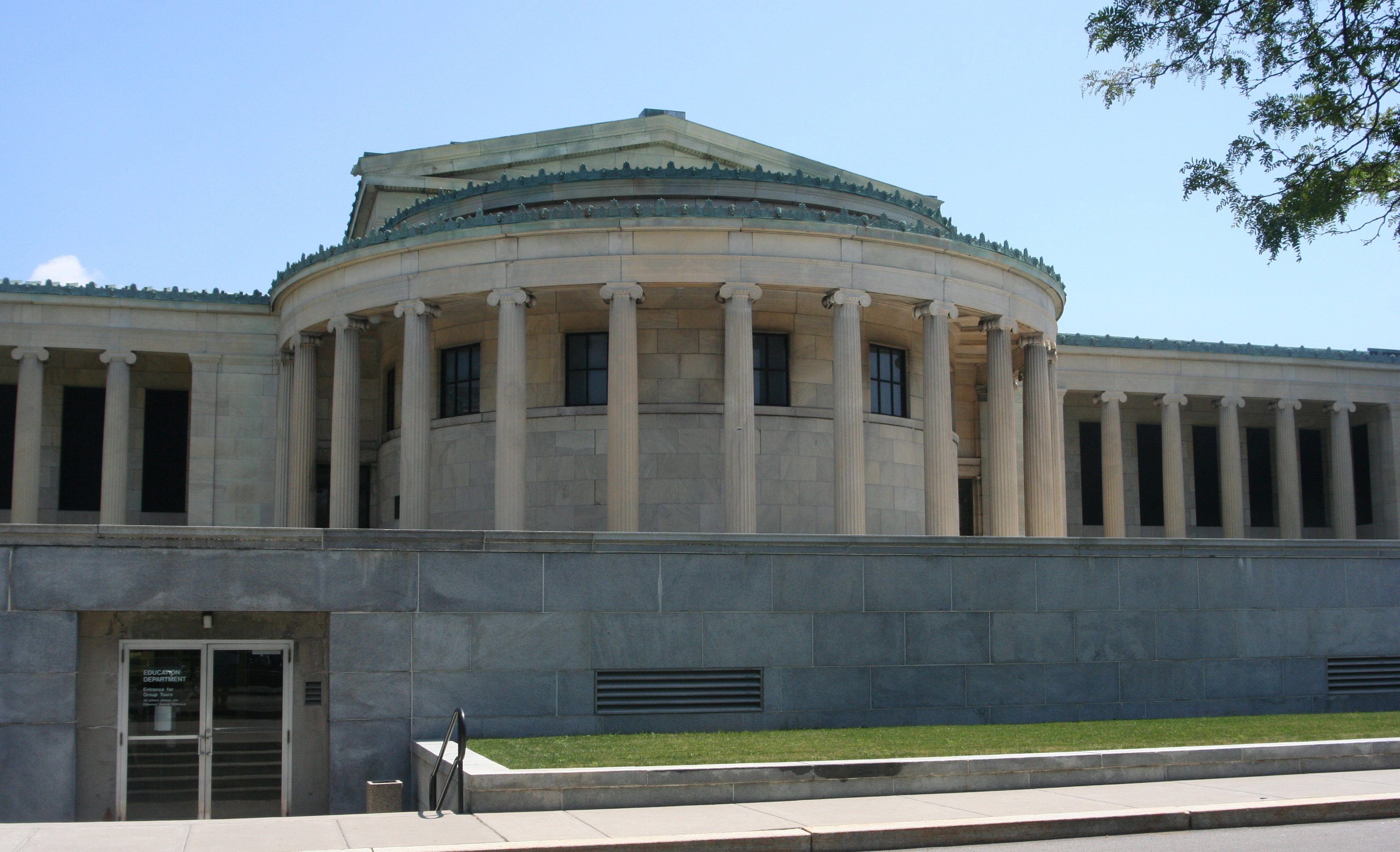 Albright-Knox Art Gallery, front